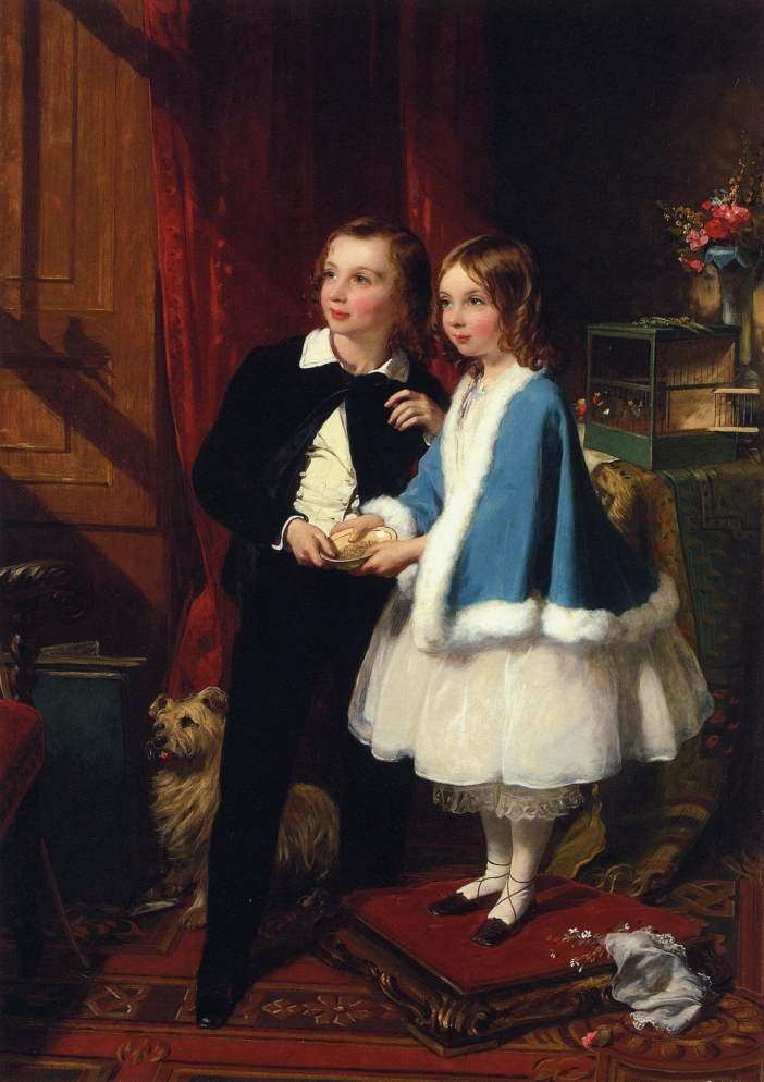 Lord Almeric Athelstan Spencer-Churchill and Lady Clementina Spencer-Churchill, the Children of George Spencer-Churchill, 6th Duke of Marlborough, and His Second Wife, Charlotte Augusta. - Oil on canvas, 183.52 x 128.27 cm